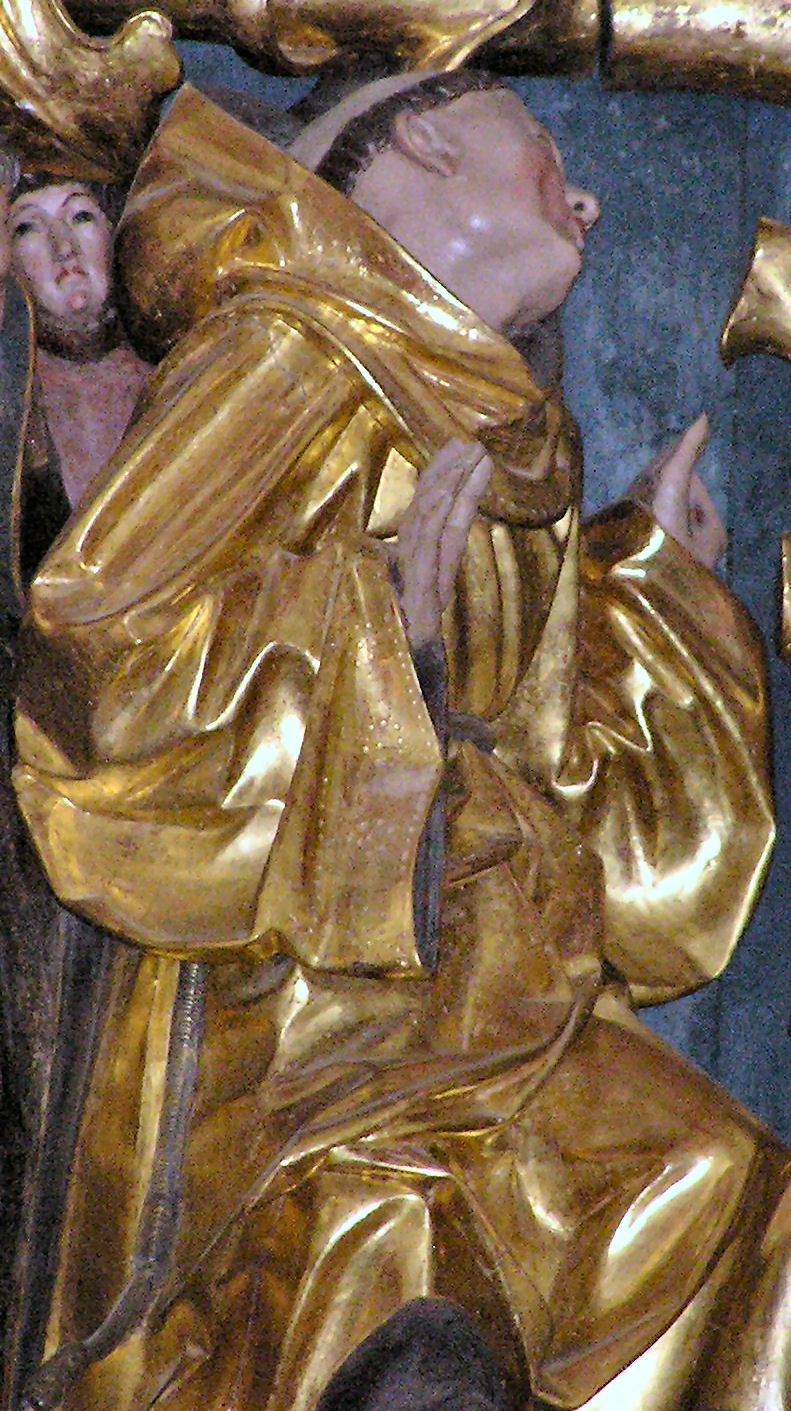 Jacobus de Dacia?, Odense Cathedral